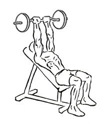 an exercise of triceps